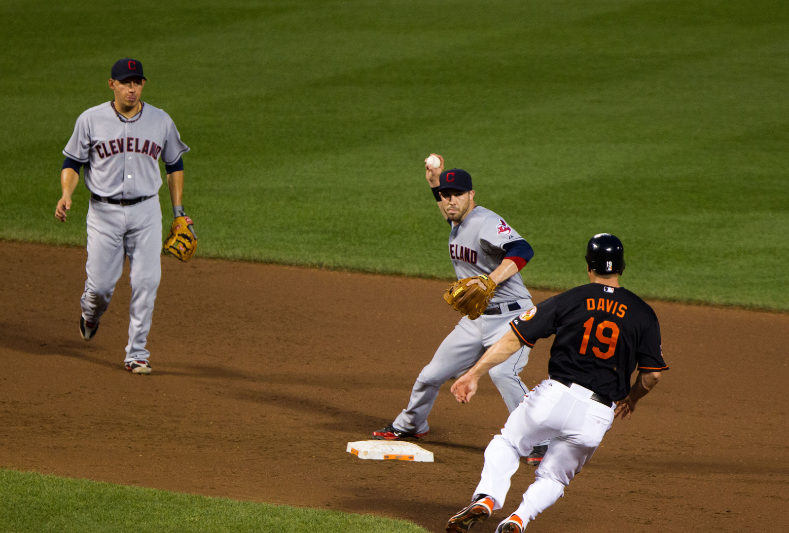 Jason Kipnis of the Cleveland Indians, turning a double play against the Baltimore Orioles.